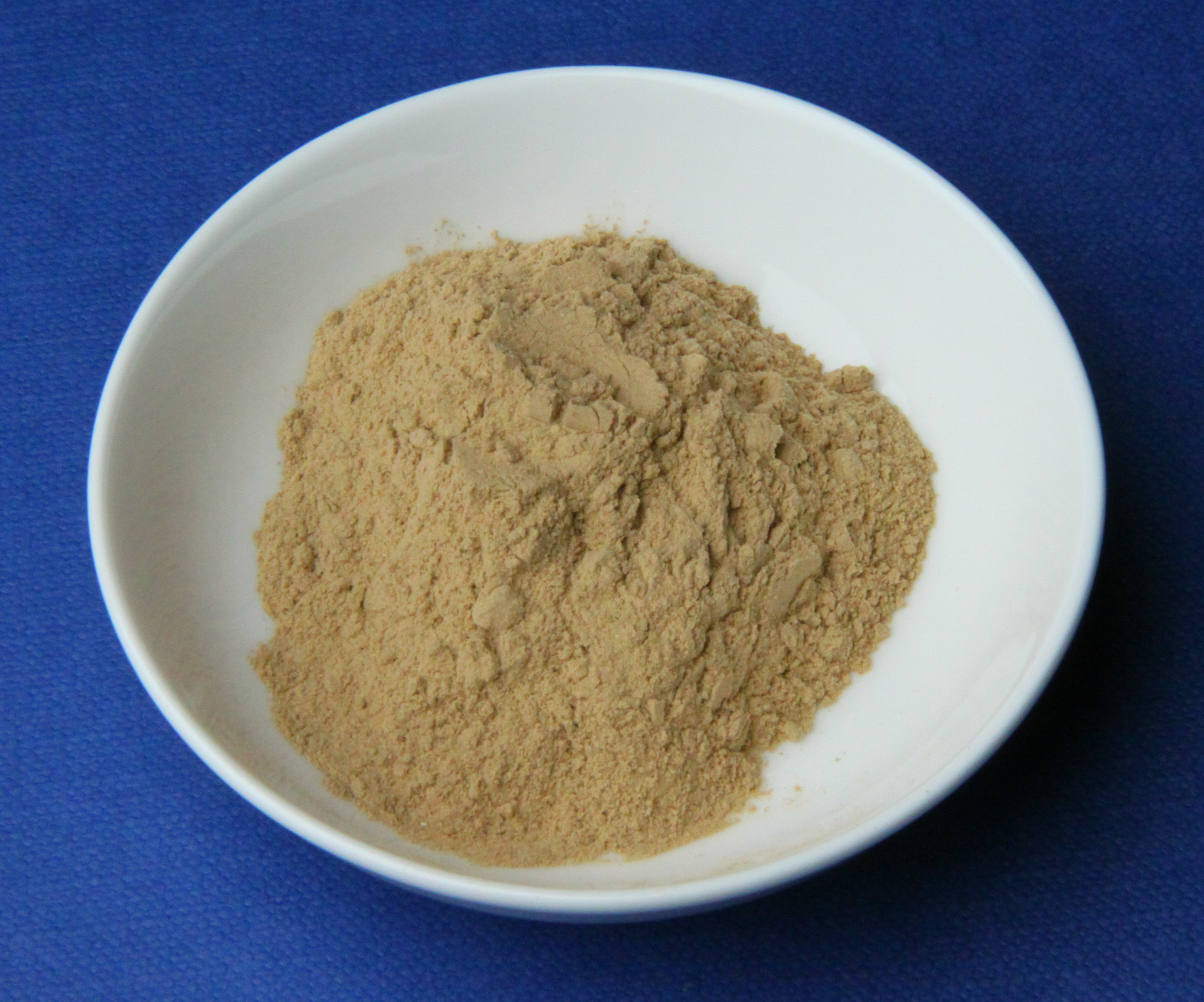 Some medicinal clay from German manufacturer Luvos.